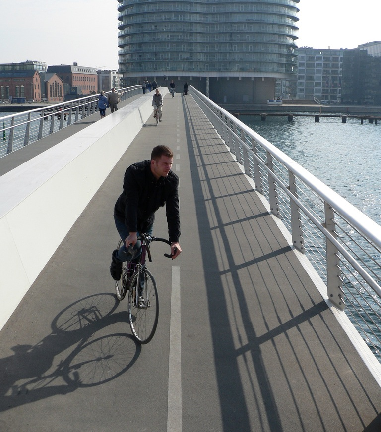 The Quay Bridge in Copenhagen